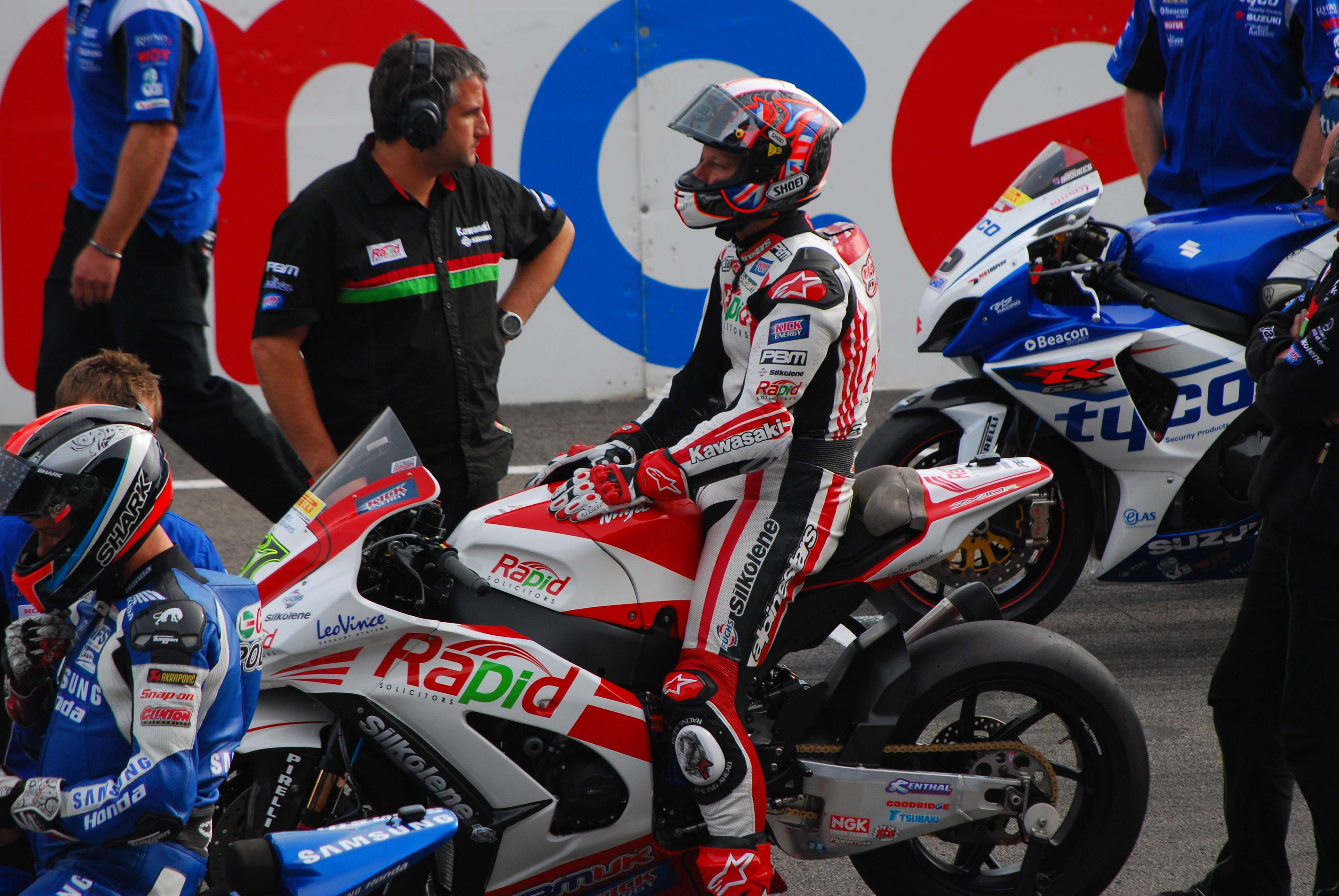 Shane Byrne on the grid before the BSB race, Assen, 23 Sept 2012.